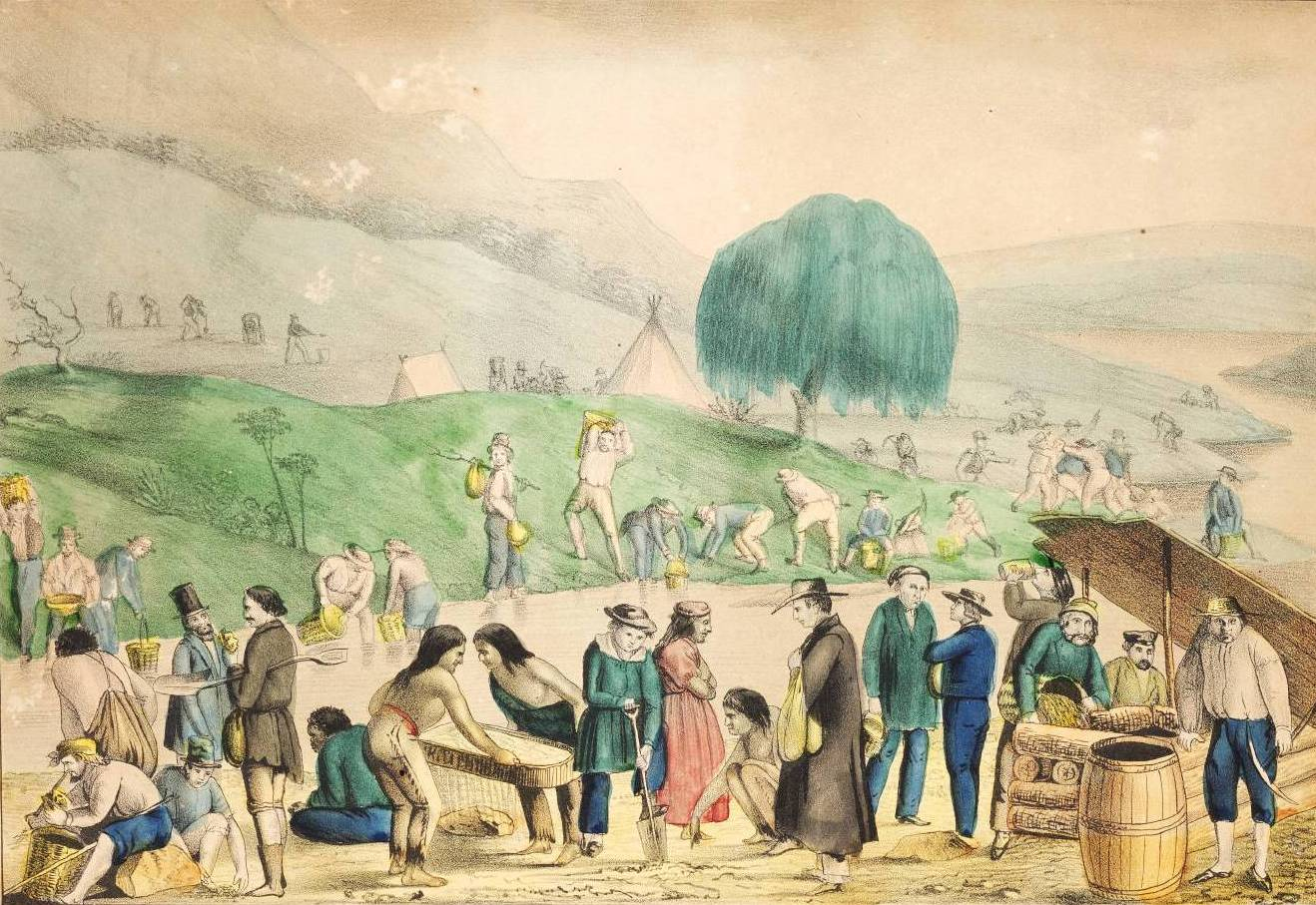 "California Gold Diggers, Mining Operations on the Western Shore of the Sacramento River," lithograph published by Kellogg & Comstock, New York and Hartford. 26 cm x 36 cm. Courtesy of the Yale Collection of Western Americana, Beinecke Rare Book and Manuscript Library, Yale University, New Haven, Connecticut.